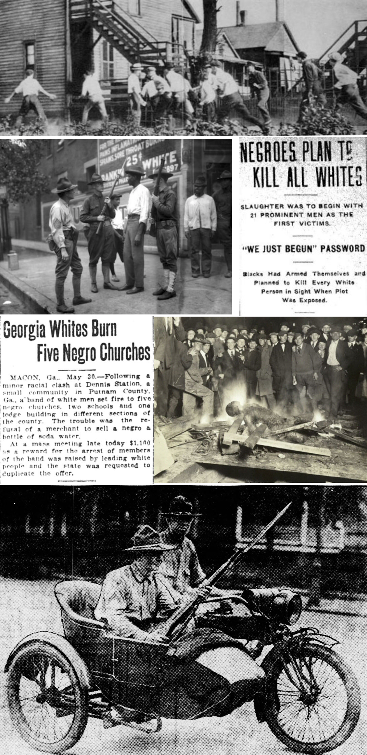 Red Summer Picture Collage